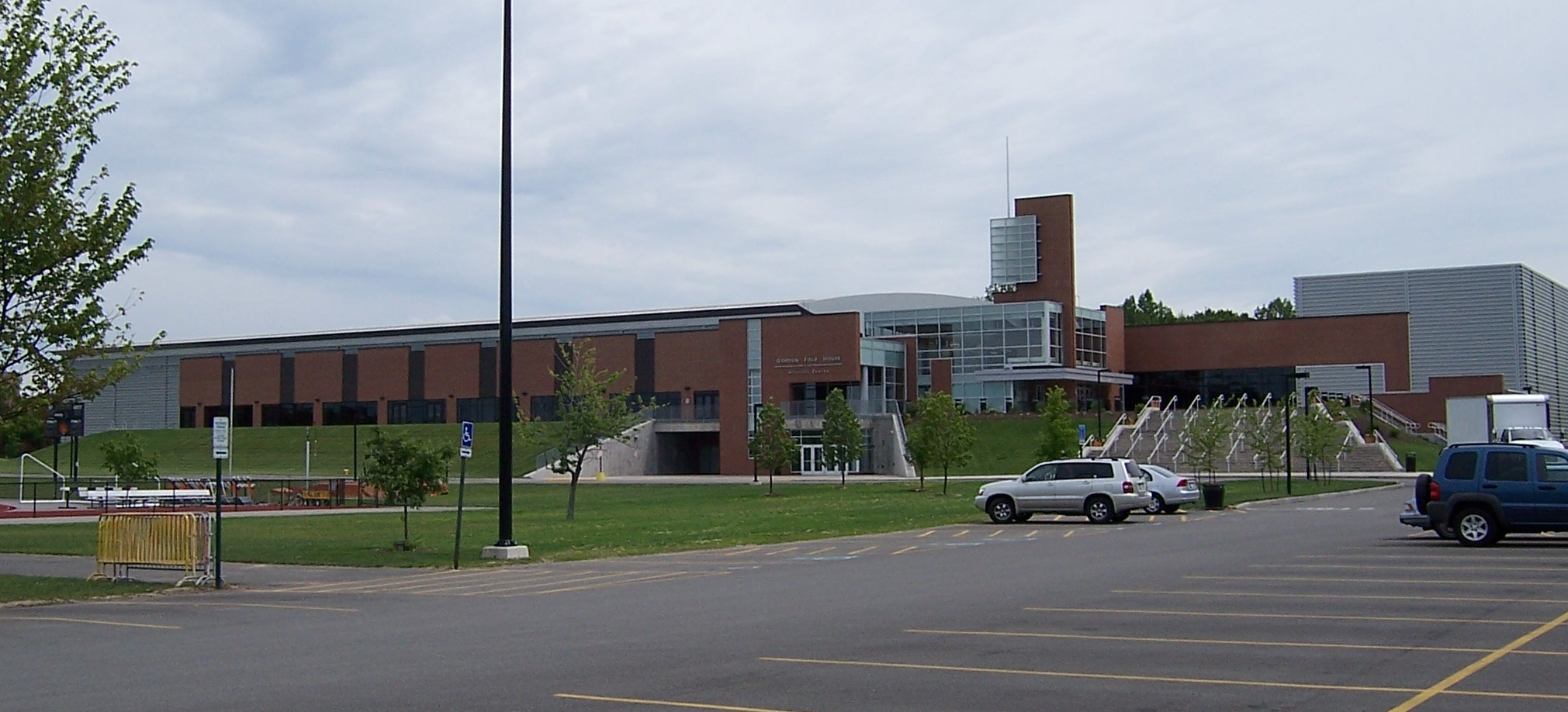 The Gordon Field House on the RIT campus, building 24. Lucius and Marie Gordon were avid supporters of RIT. The Field House was constructed to hold large-scale events such as Convocation. It was completed in 2004 and contains a large arena, two swimming pools, and a weight room. Plans for a Field House were discussed as far back as 1994, when the project was nicknamed the "Simone Dome" by students, after RIT president Dr. Albert J. Simone.